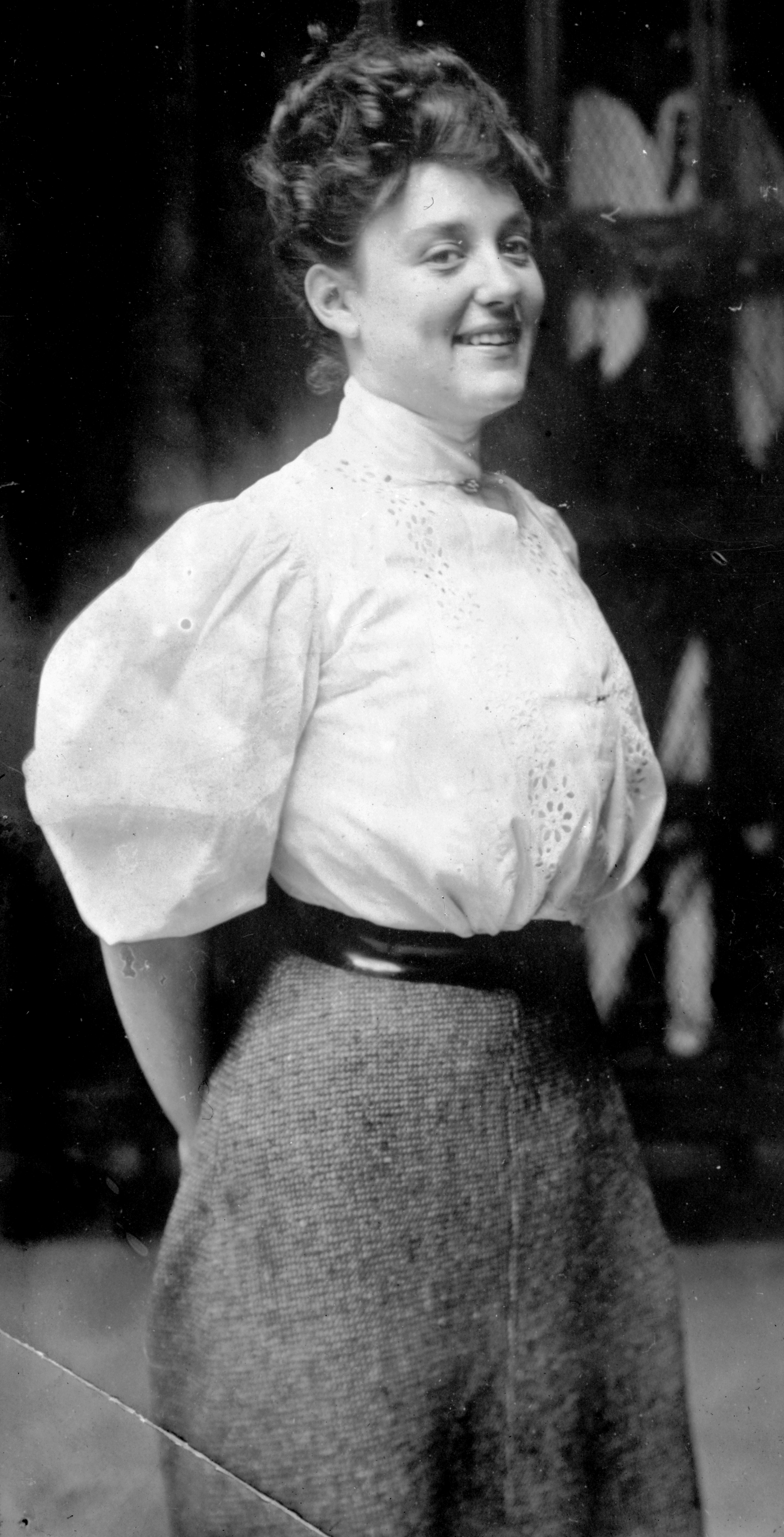 Annette Kellerman (1887-1975), Australian professional swimmer, vaudeville and film star